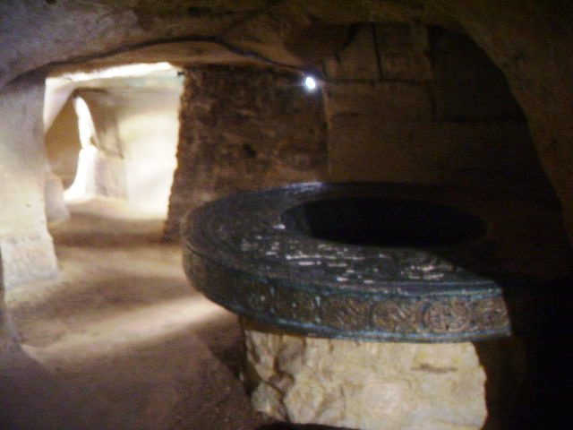 The Enchanted Well at the City of Caves in Nottingham.